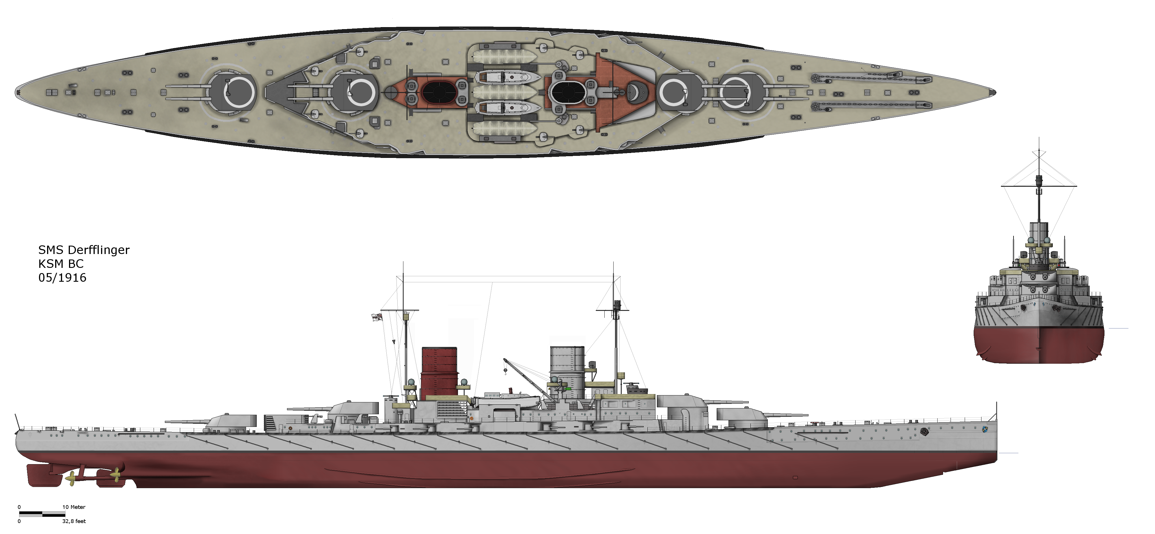 Drawing of the SMS Derfflinger in her configuration in May 1916. Additional info obtained from: Gary Staff: German Battlecruisers of World War One., Pen & Sword Books, 2014, ISBN 978-1848322134 Gerhard Koop), Klaus Schmolke: Vom Original zum Modell, Die großen Kreuzer - Von der Tann, Moltke-Klasse, Seydlitz, Derfflinger-Klasse Bernard & Graefe, 1997, ISBN 3763759735 Various photographs